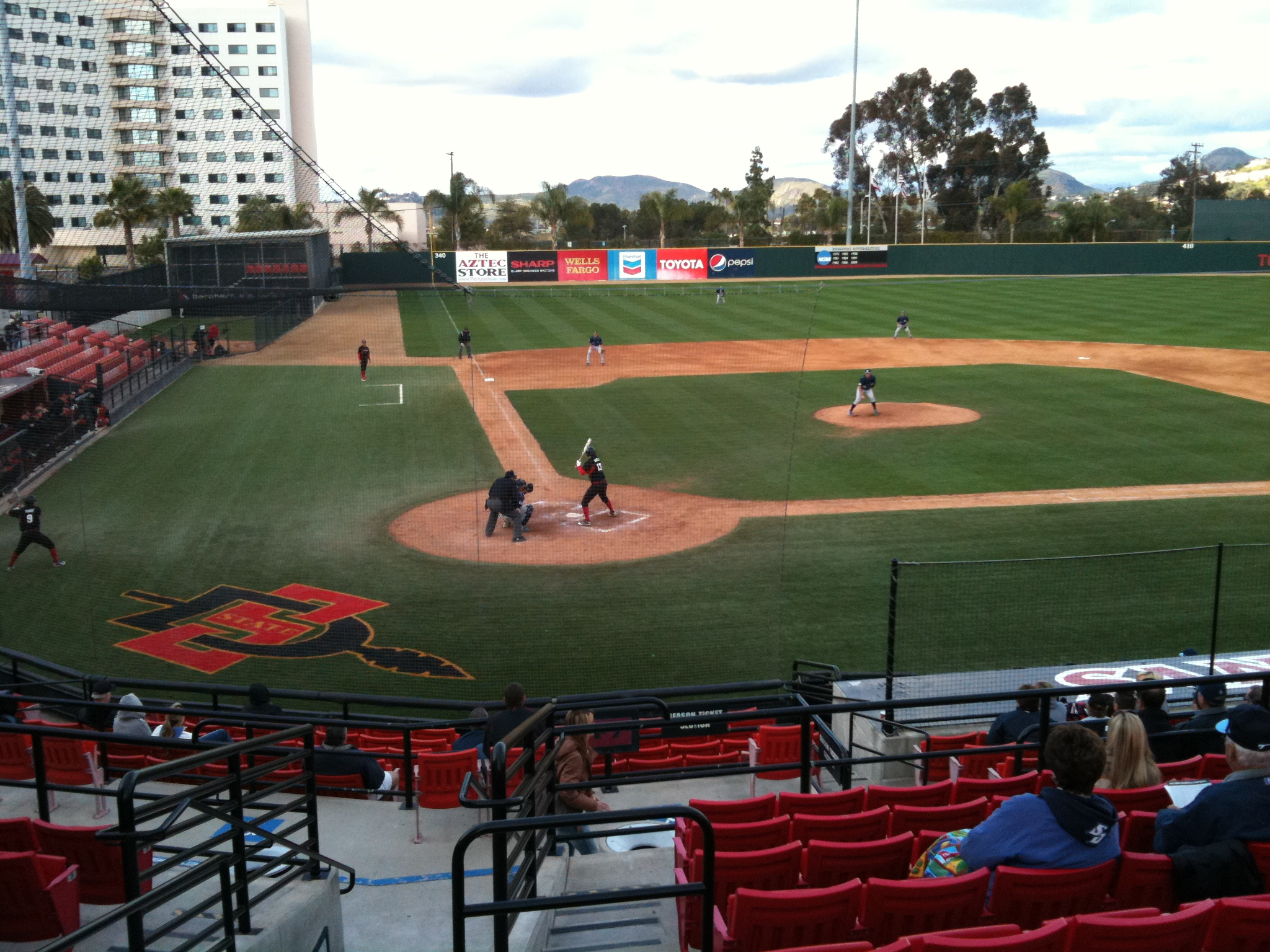 Tony Gwynn Stadium field